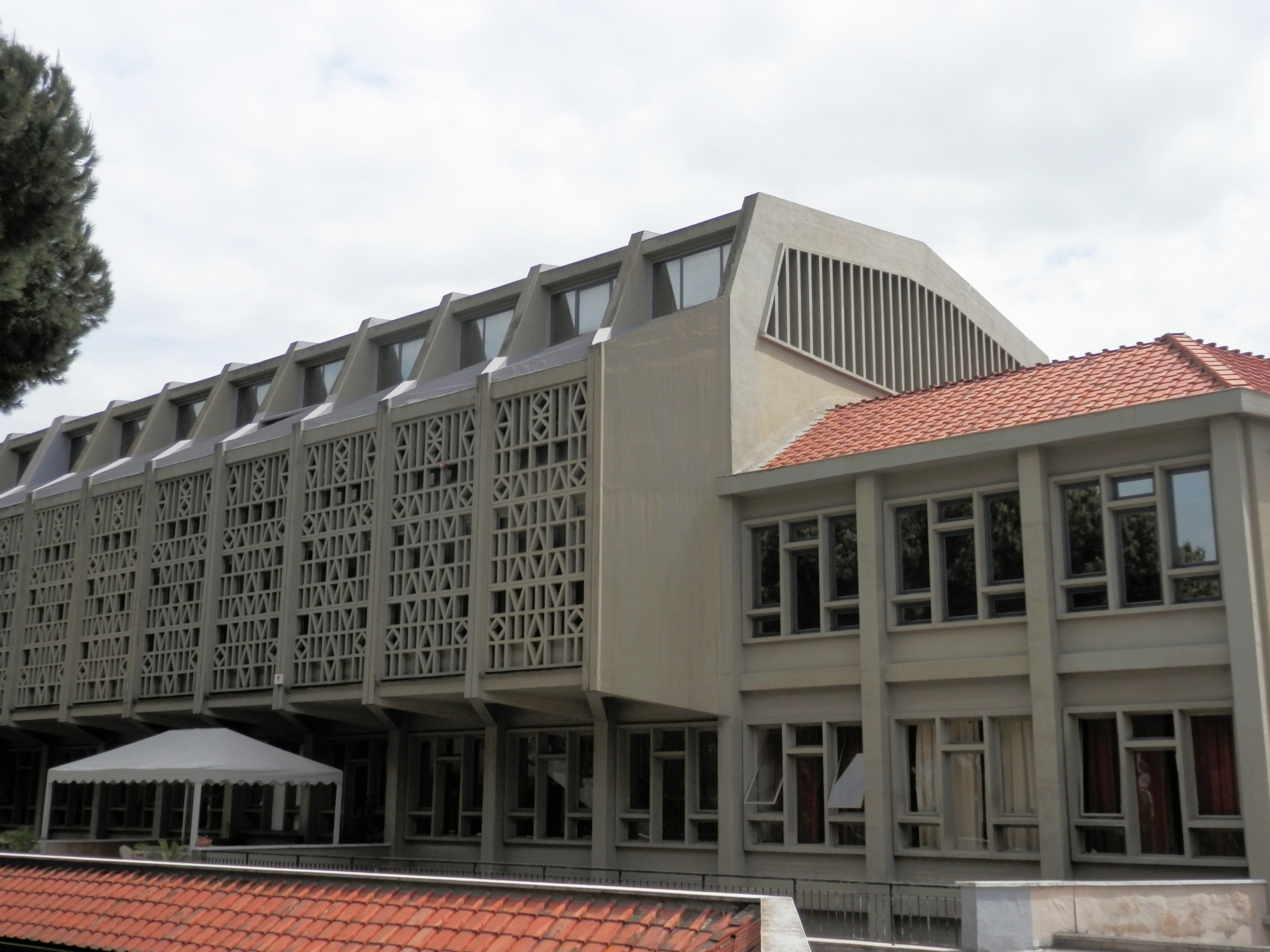 Rome, Pontifical College of Theology 'St. Bonaventure' - library